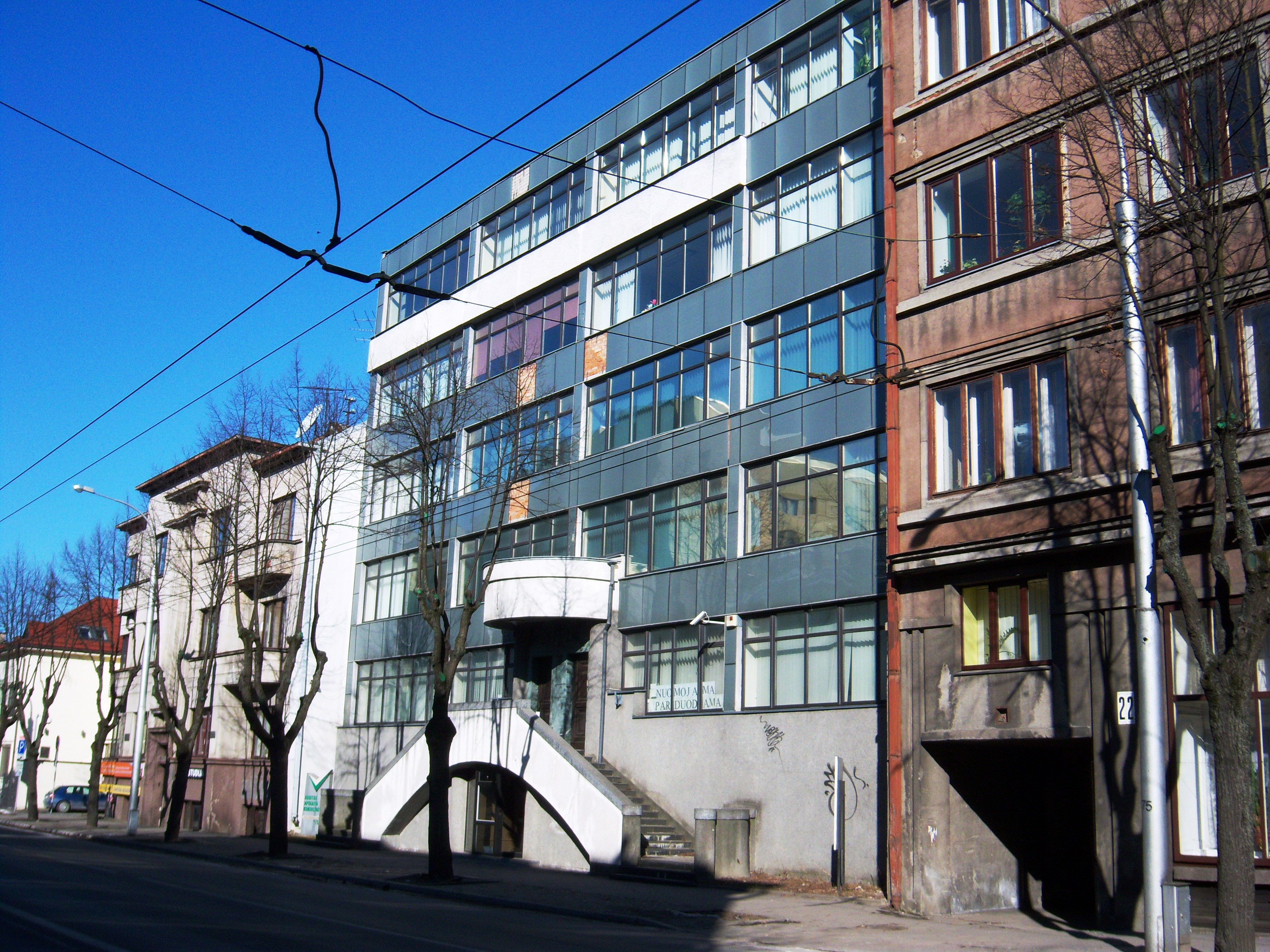 Office building, K. Donelaičio street 24, Kaunas, Lithuania